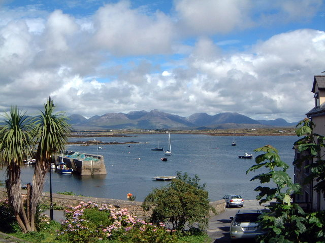 Roundstone Looking across Roundstone harbour to the Twelve Bens.